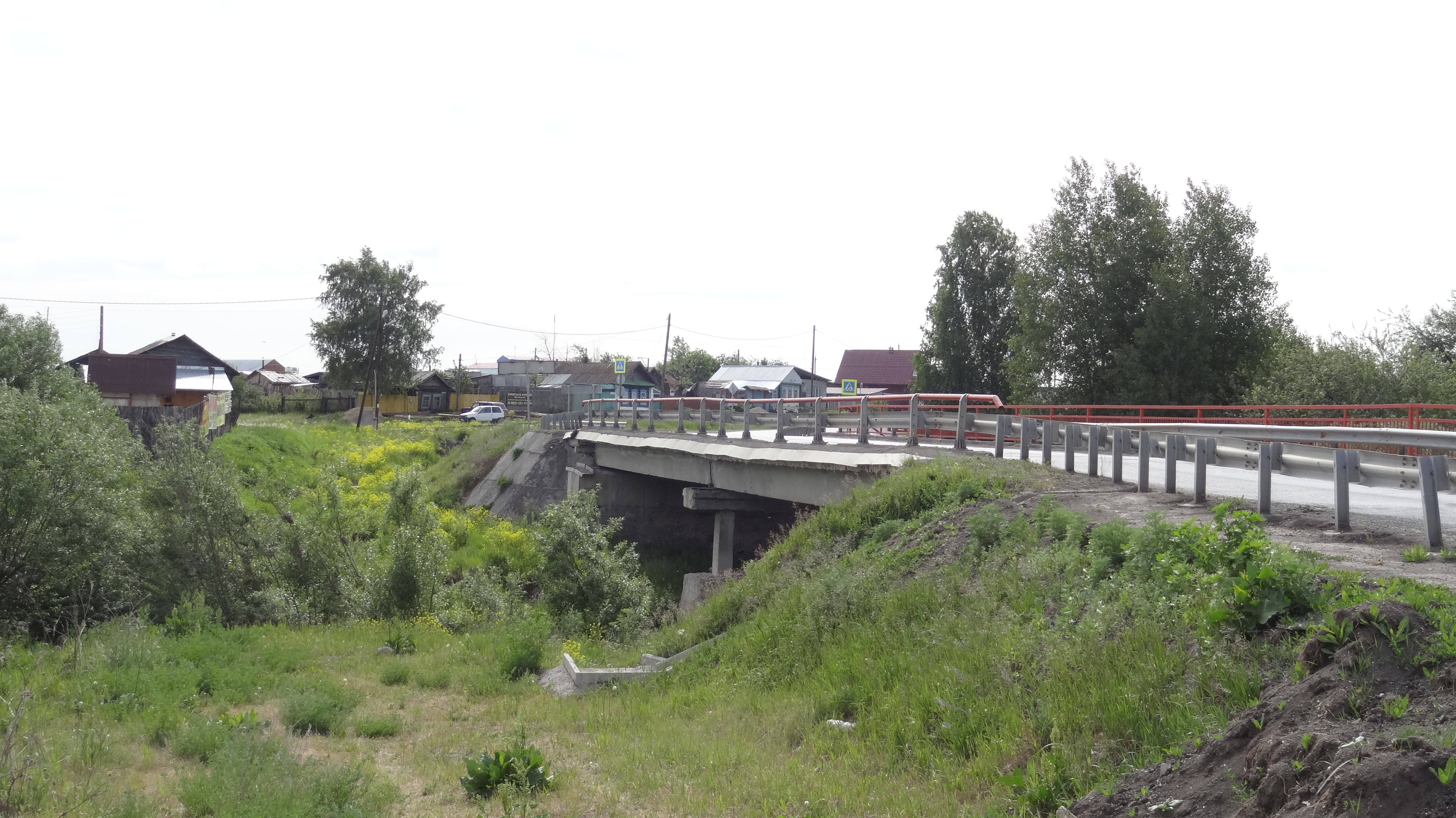 Chasovaya village, Sverdlovsk Oblast, Russia